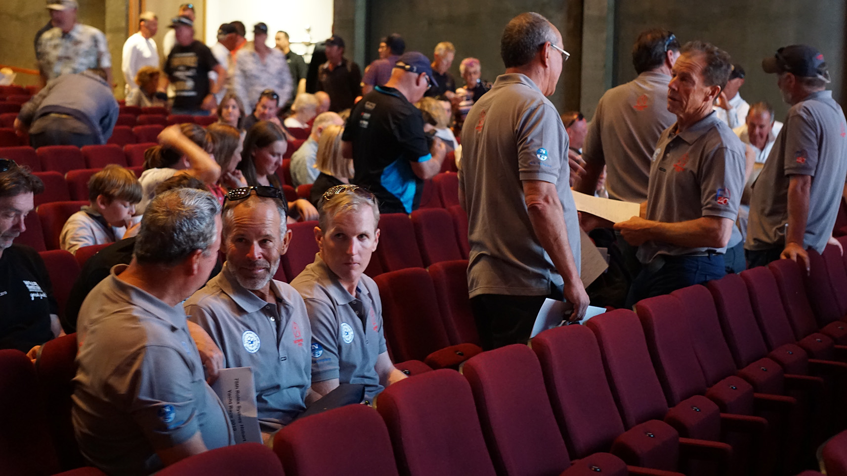 The 2019 Rolex Sydney Hobart Yacht Race and its highest achievers have been celebrated in Hobart at the event's Official Prizegiving ceremony.